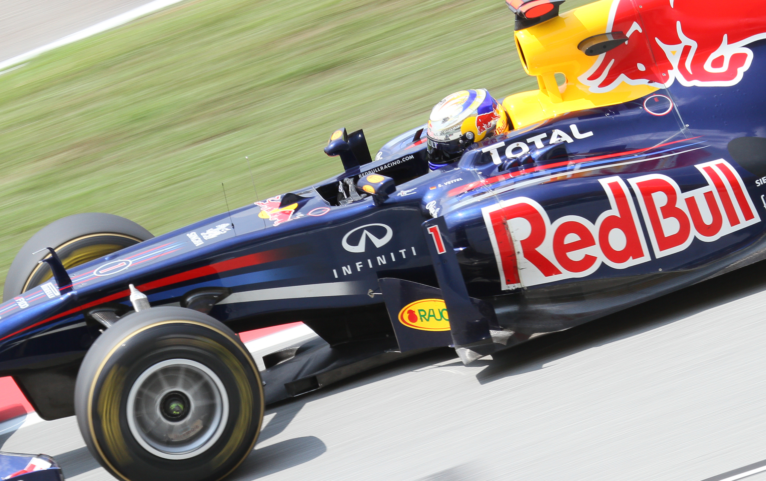 Formula One 2011 Rd.2 Malaysian GP: Sebastian Vettel (Red Bull) during the second practice session on Friday.